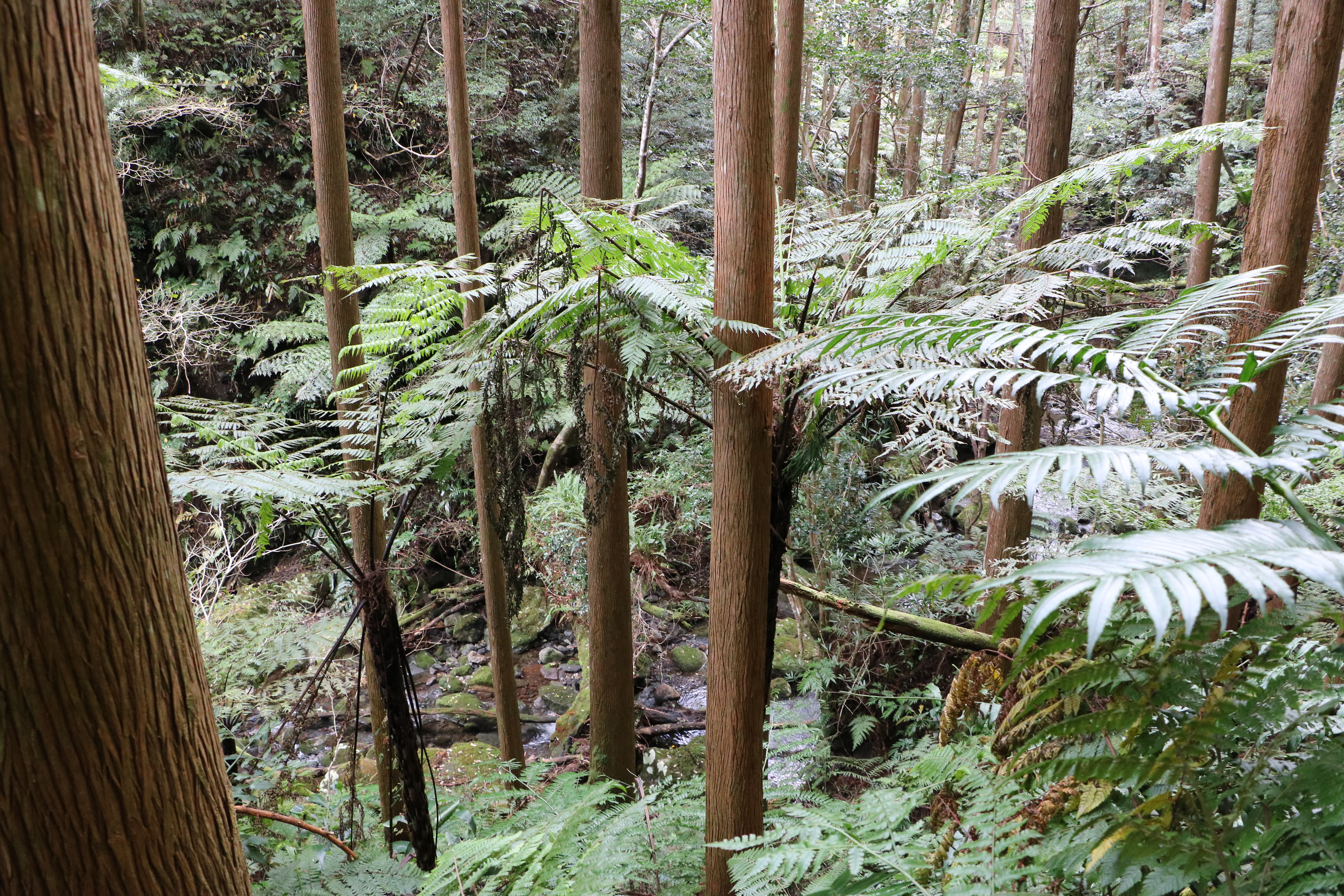 Northern limit of Hego habitat in Hachijojima Island